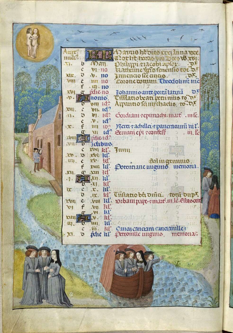 Calendar Page for May. Detail from Harley MS 4425, Roman de la Rose